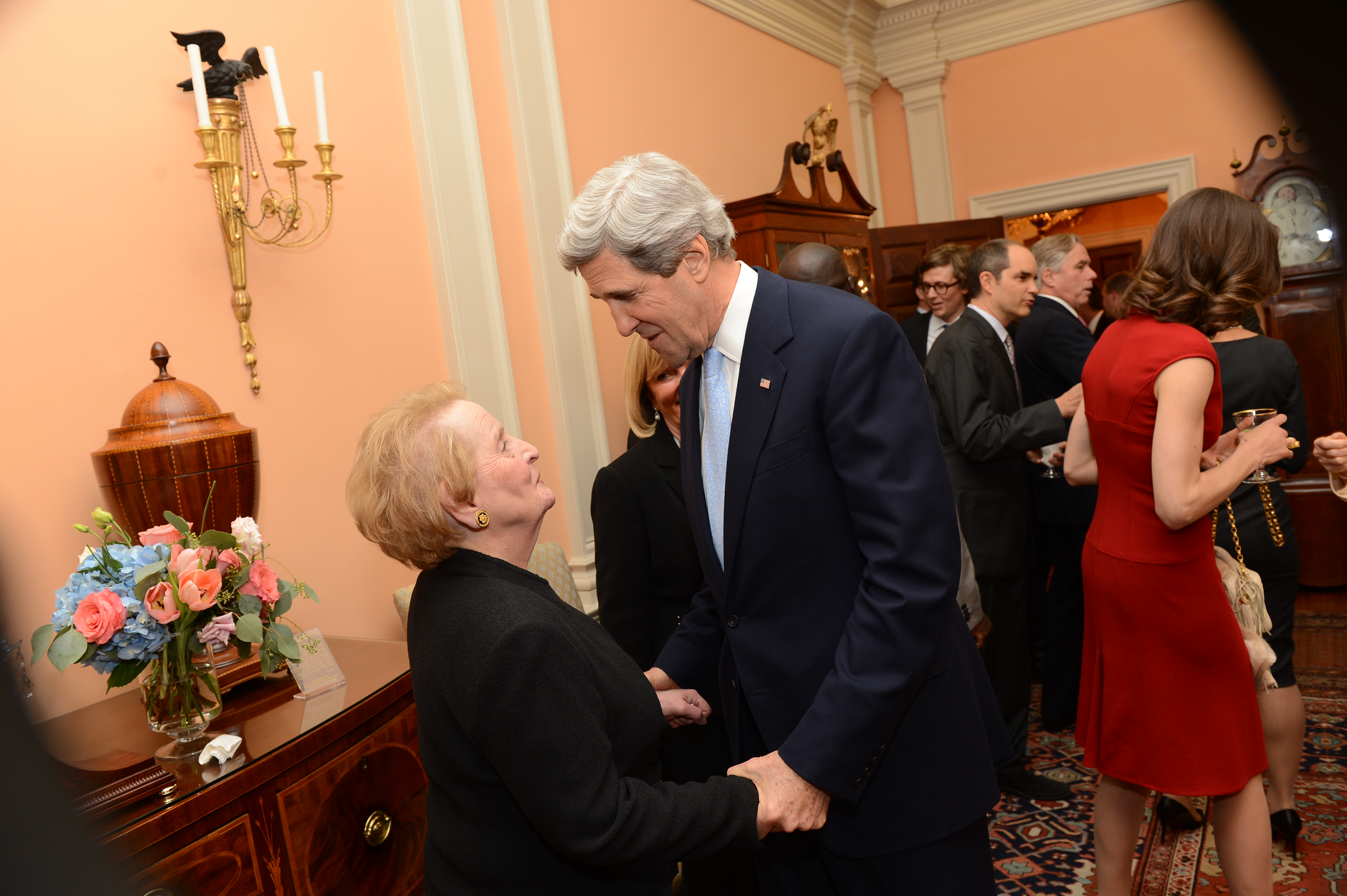 U.S. Secretary of State John Kerry greets former U.S. Secretary of State Madeleine Albright before his ceremonial swearing-in at the U.S. Department of State in Washington, D.C., February 6, 2013. [State Department photo/ Public Domain]